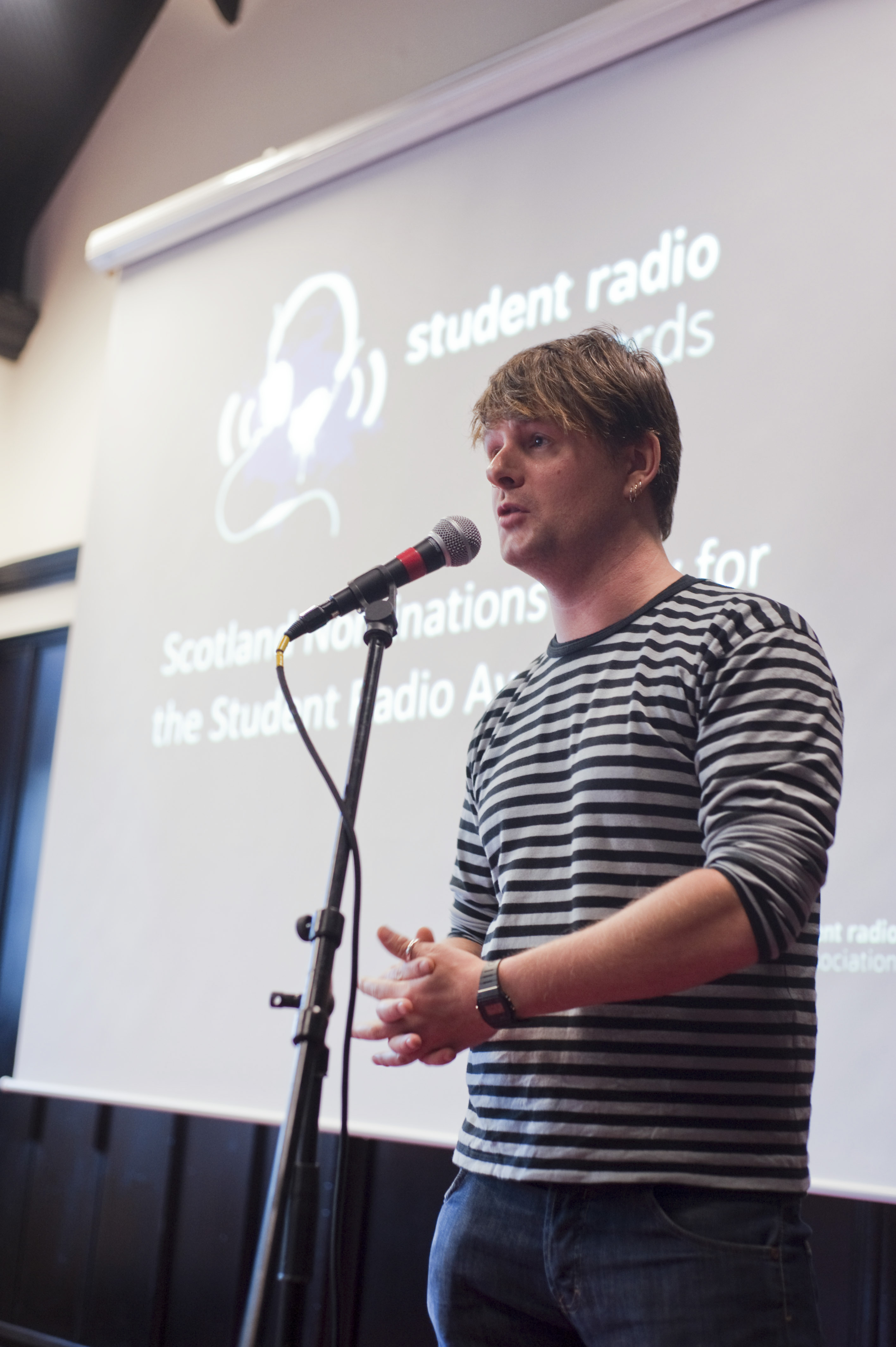 a photograph of a man wearing a striped shirt standing with a microphone.